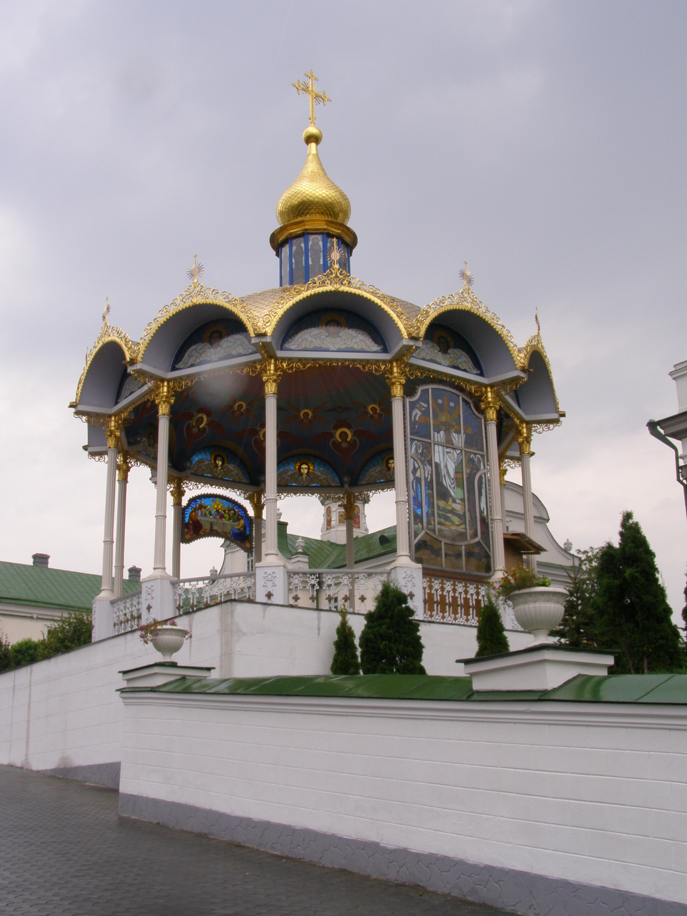 Pochayiv Lavra